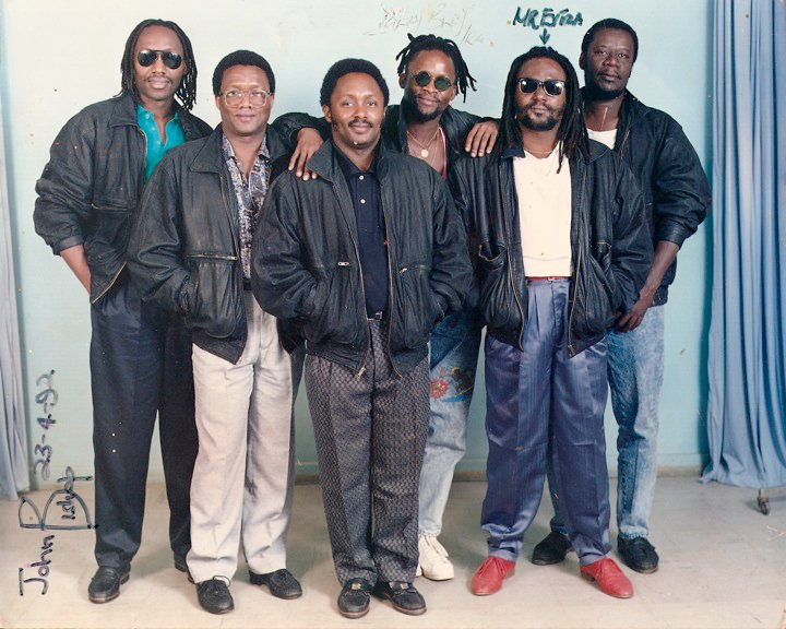 Band members as of 90's